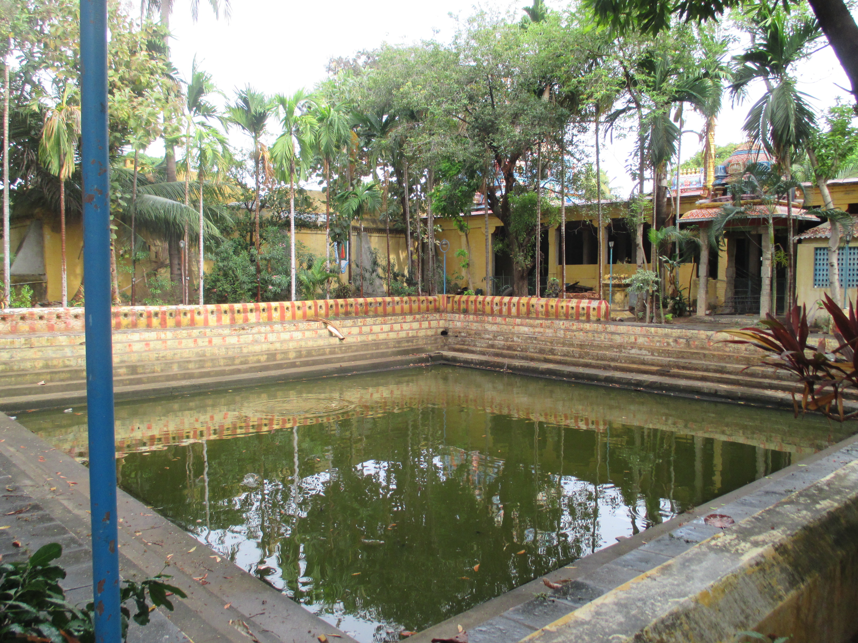 Soundararajaperumal Temple, Nagapattinam